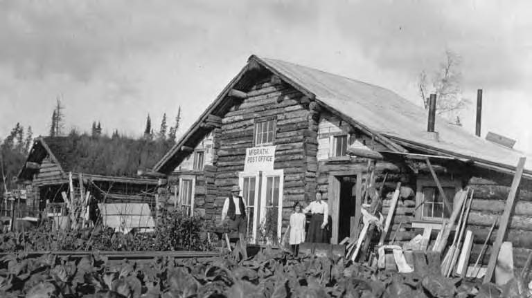 Caption under photo: McGrath - Post Office. McPherson number: K463 PH Coll 495.2-46b Photograph from album created in circa 1914 by James Lennox McPherson, a civil engineer, that documents the activities of the Kuskokwim Reconnaissance survey party (known as Party No. 11 of the Alaska Railroad Commission expedition). The A.E.C. had assigned McPherson to research the feasibility of building a branch railroad from Anchorage west to the mining districts on the Kuskokwim and Iditarod Rivers. Subjects (LCTGM): Post offices--Alaska--McGrath; Log buildings--Alaska--McGrath Subjects (LCSH): McGrath (Alaska)--Buildings, structures, etc.